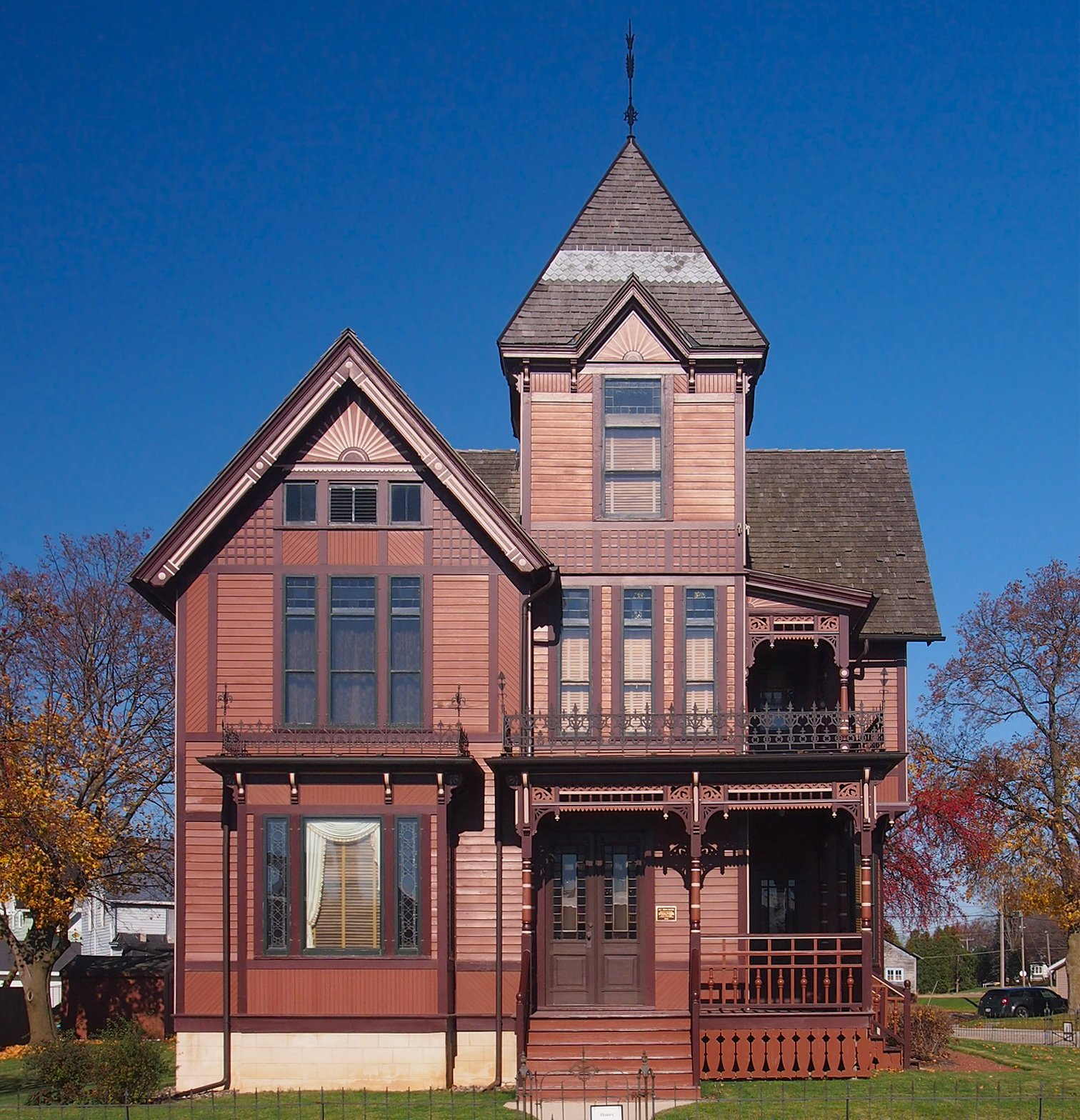 Herman C. Timm House, 1600 Main St, New Holstein, Wisconsin, USA. Viewed from the south.